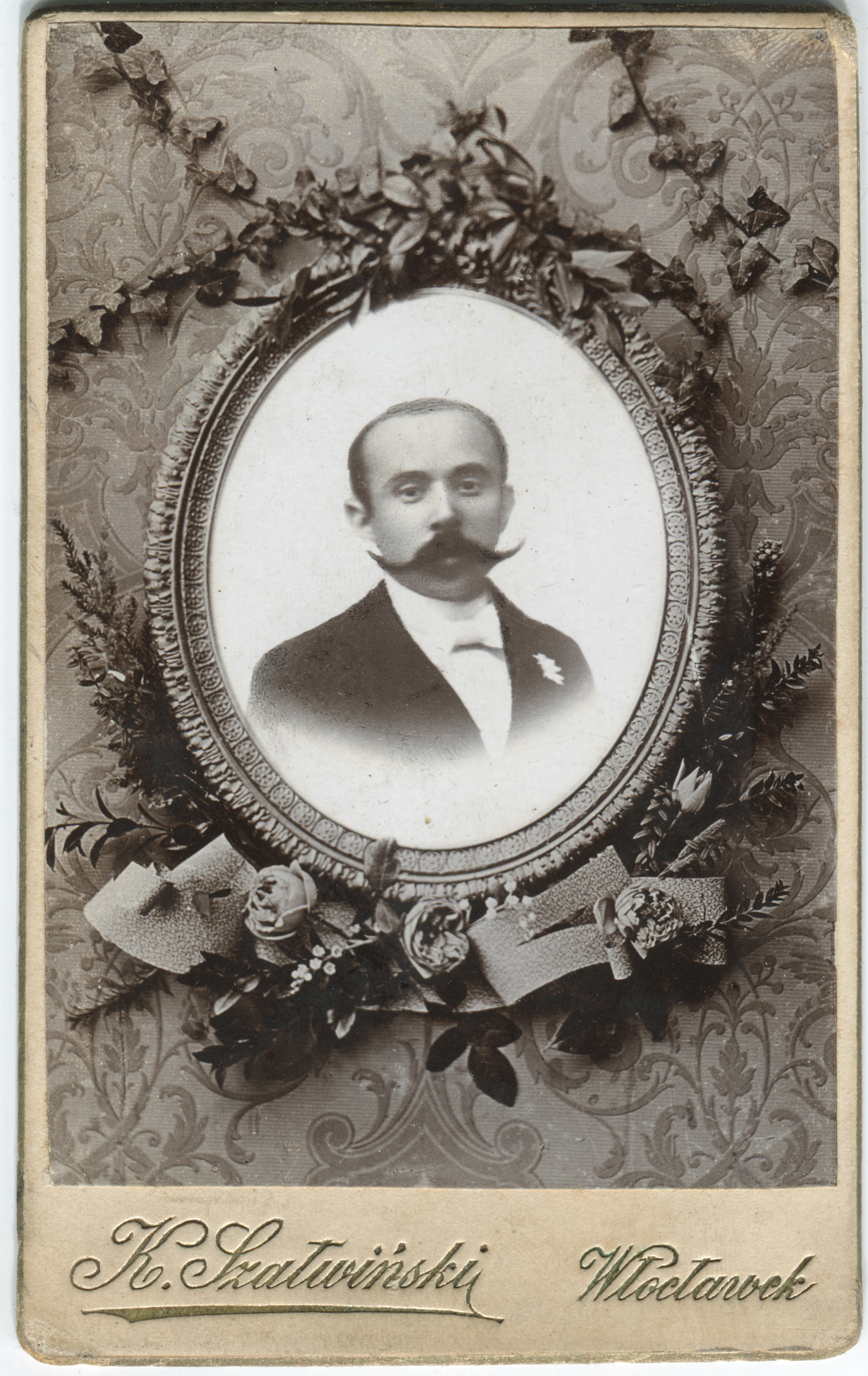 Self-portrait of Karol Szałwiński (1869-1906), made about 1900 year in Włocławek. Photograph came from collection of Danuta Anna Krełowska.